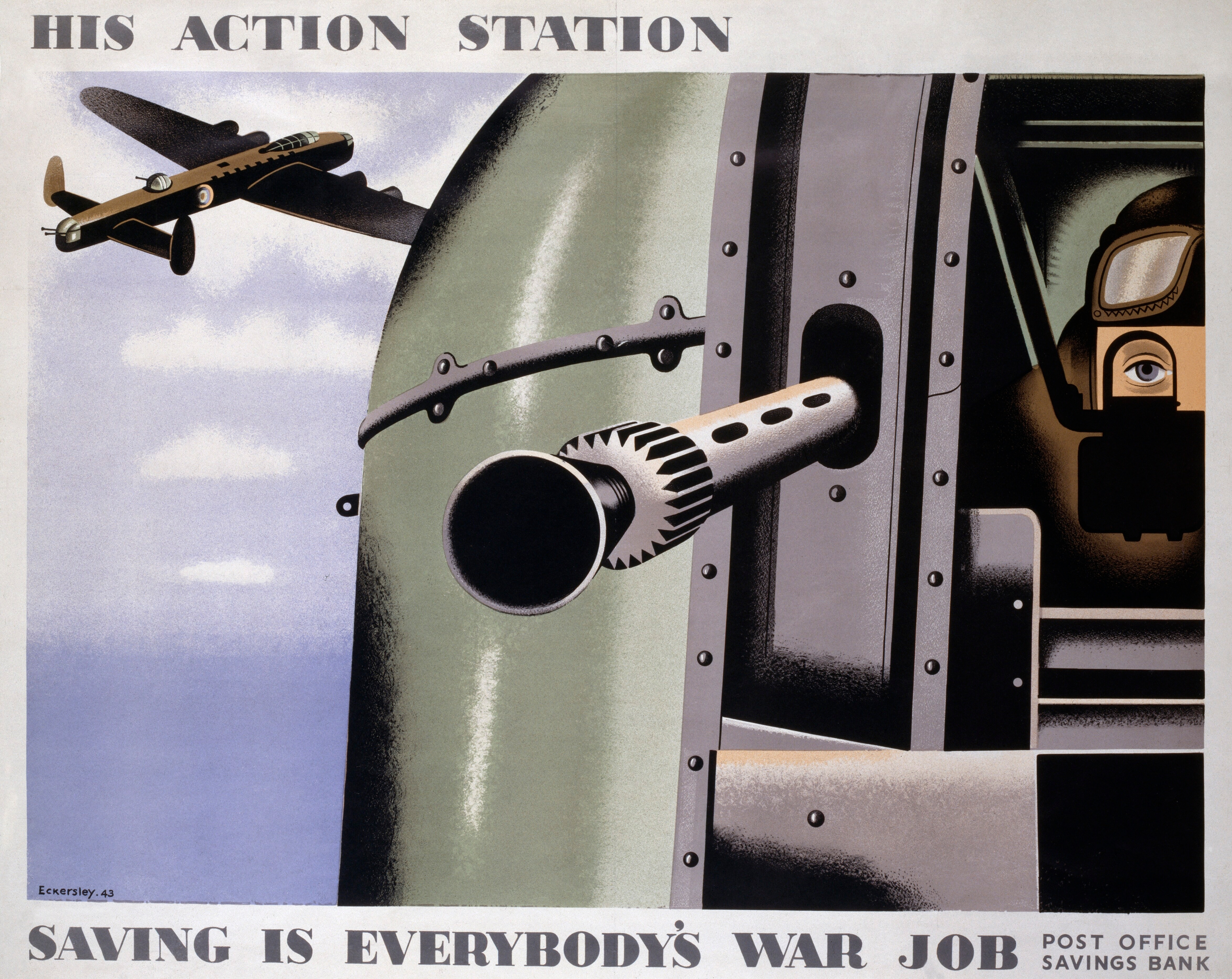 AWM Caption: This is a British poster depicting a rear-gunner in a Lancaster bomber. A second aircraft is seen flying at left. Added to the slogan 'Savings is everybody's war job' are the words 'Post Office Savings Bank'. Eckersley, Thomas (Artist) H.M. Stationery Office (Publisher) Johnson, Riddle & Co. Ltd. (Printer)